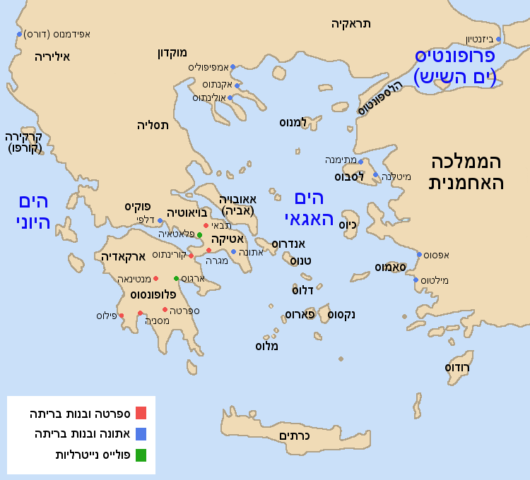 Peloponnesian War